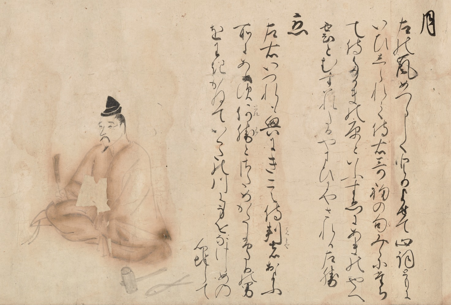 Tōhoku'in shokunin utaawase emaki: The Tohokuin Poetry Contest among Persons of Various Occupations, Tokyo National Museum, A-1399